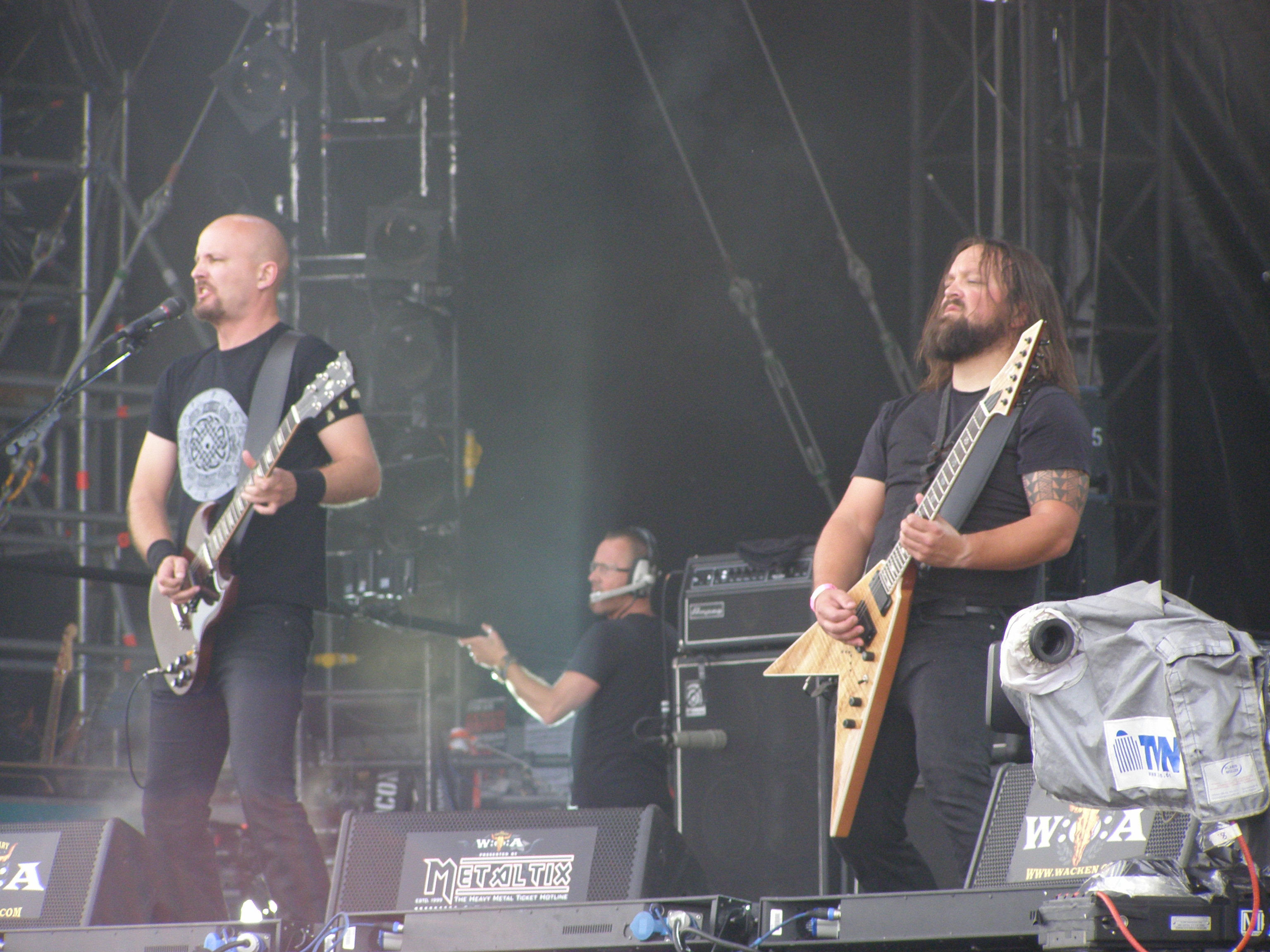 Einherjer live at Wacken Open Air 2009